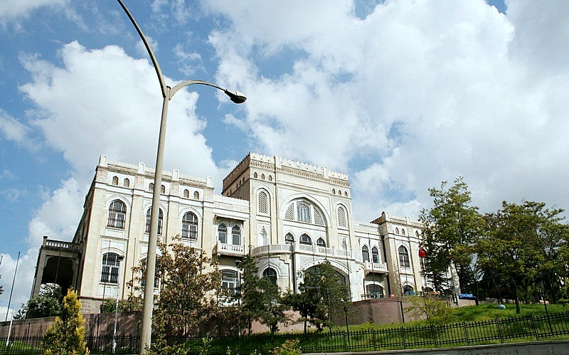 Ankara State Painting and Sculpture Museum